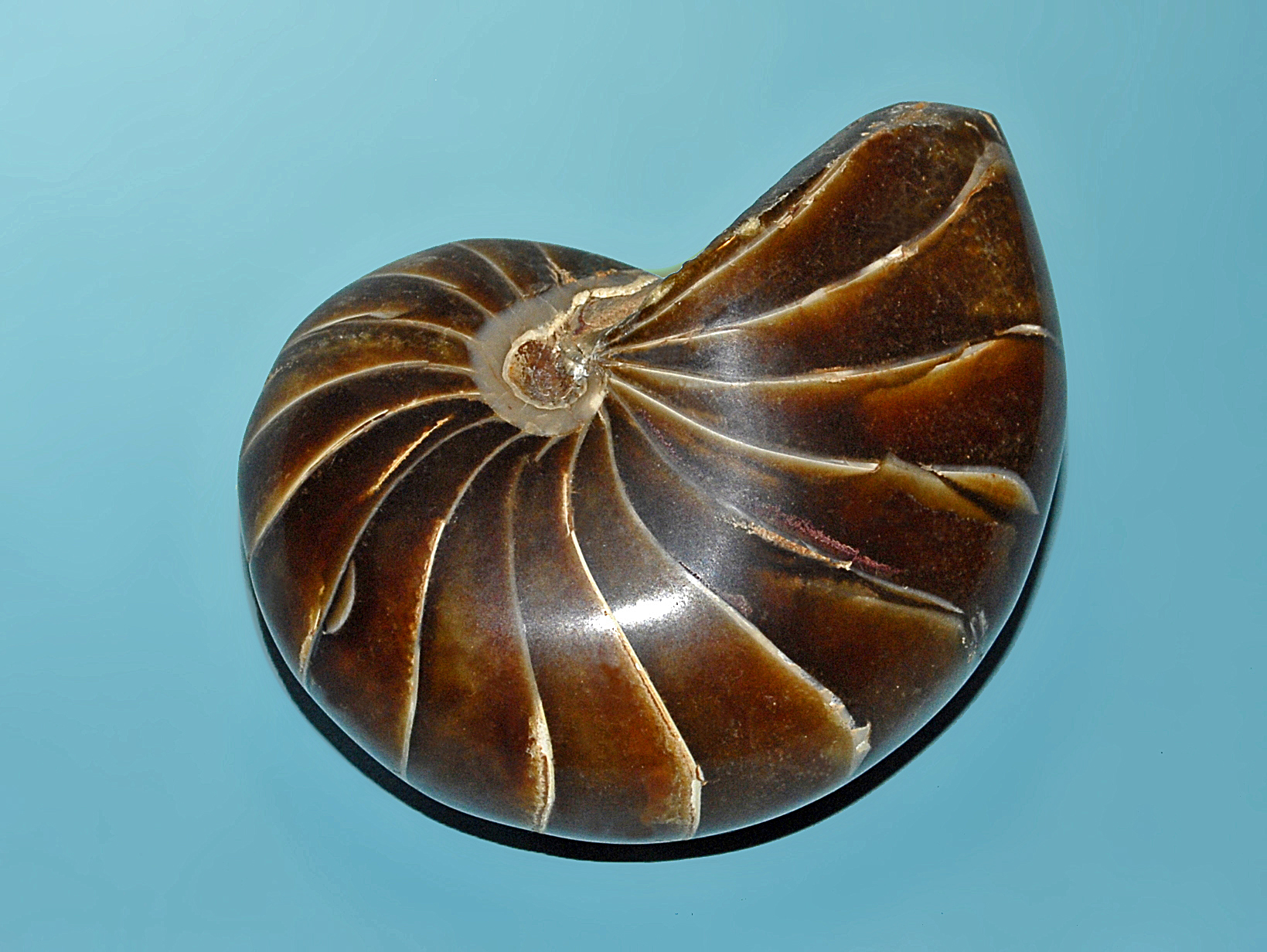 Fossil of Cenoceras species from Mahajanga, Madagascar